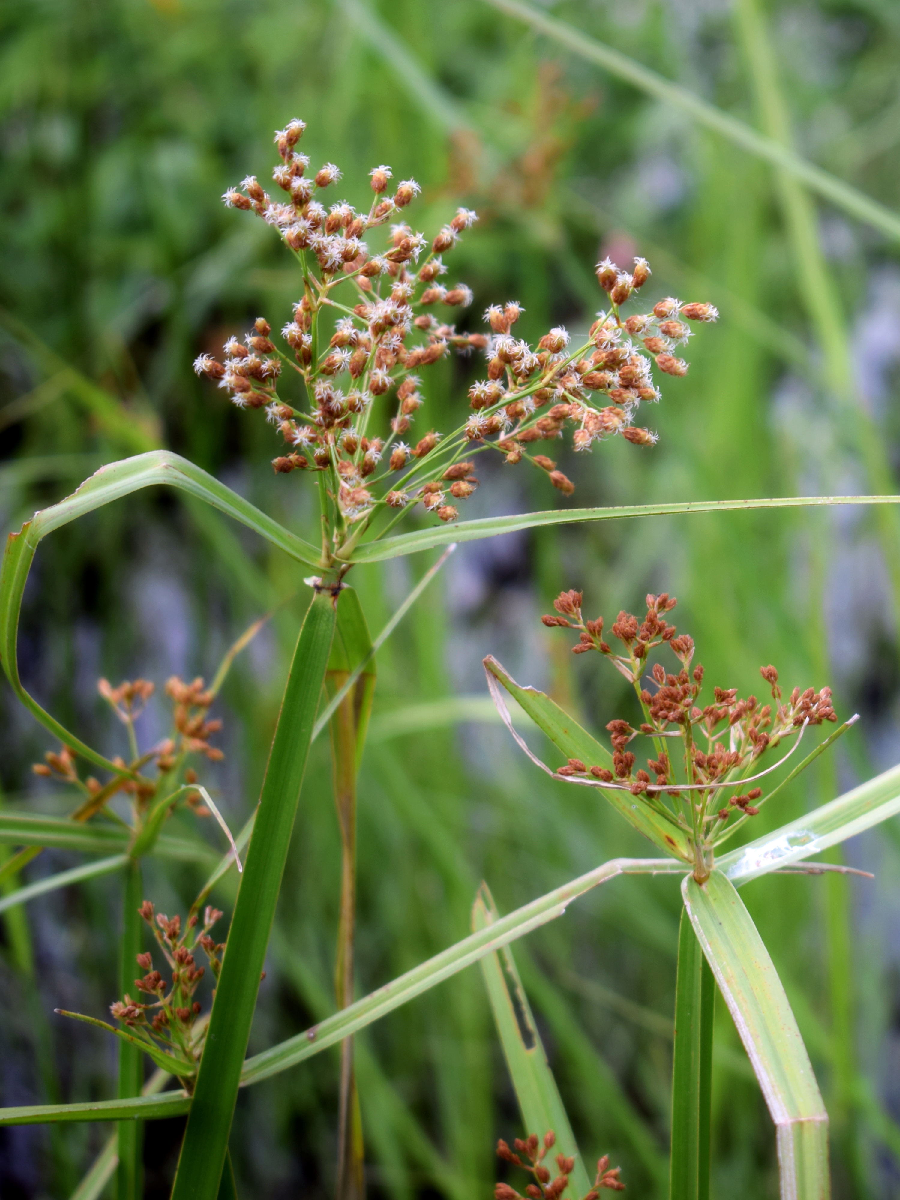 Actinoscirpus grossus. From Lumajang, East Java, Indonesia. Inflorescences.